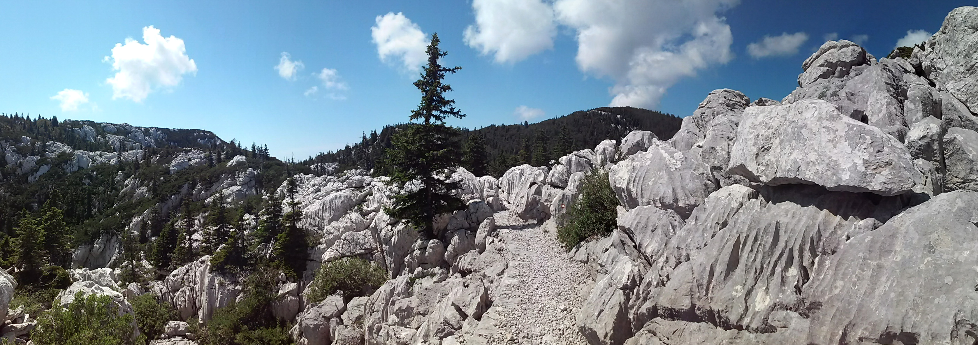 Premuzic trail at national park North Velebit